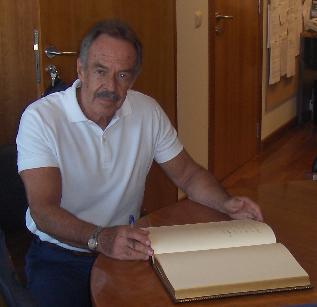 Image of Dr. René Raúl Drucker Colín.